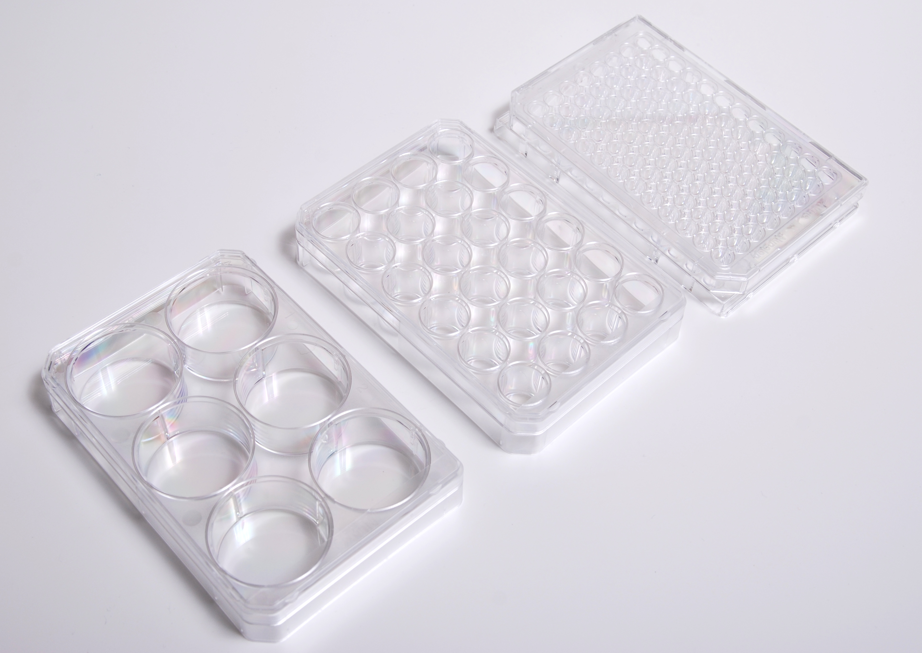 Set of different multiwell cell culture plates